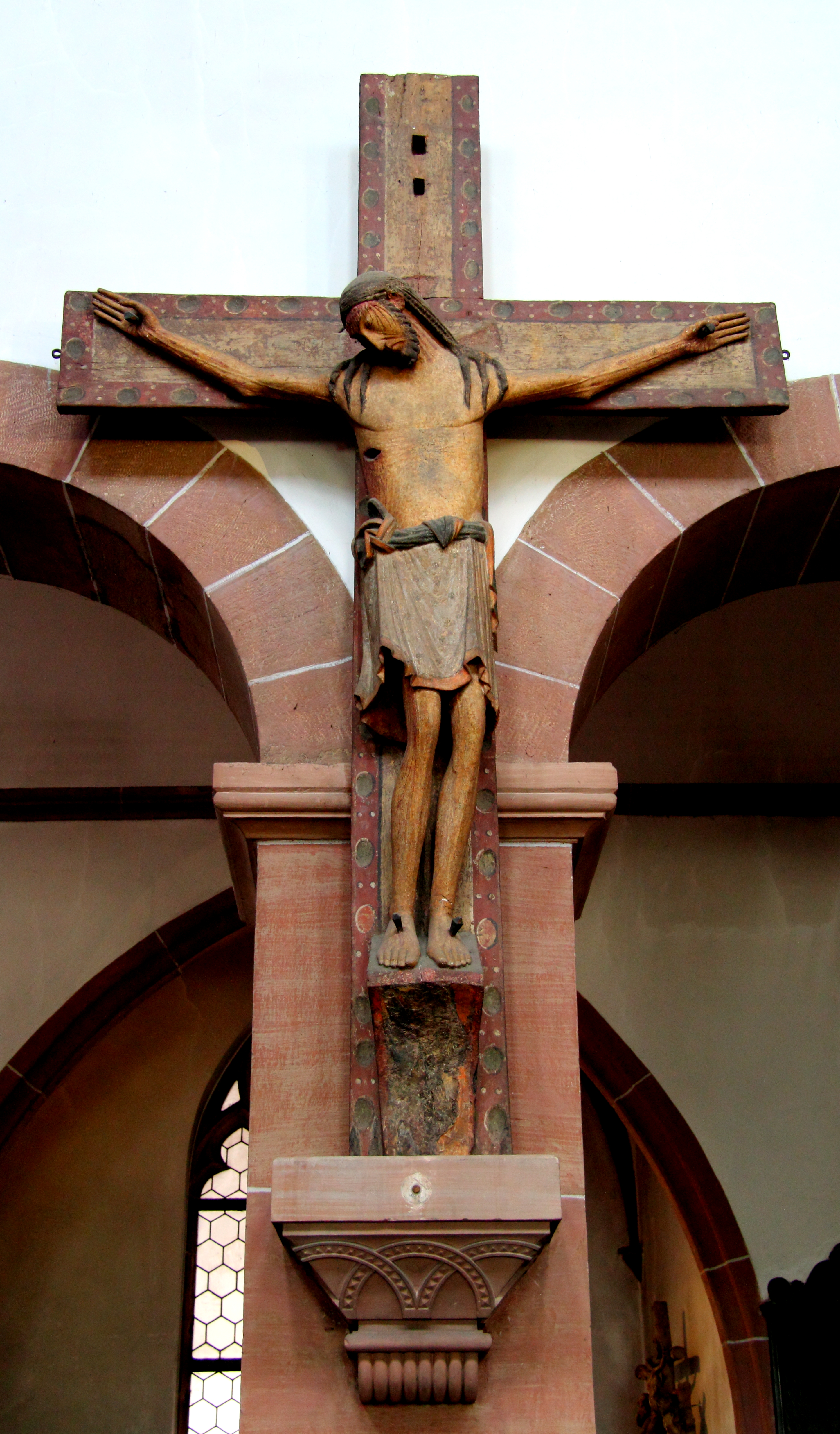 Aschaffenburg, Germany, wooden crucifixe from the 10th century AD in the St. Peter and Alexander collegiate church